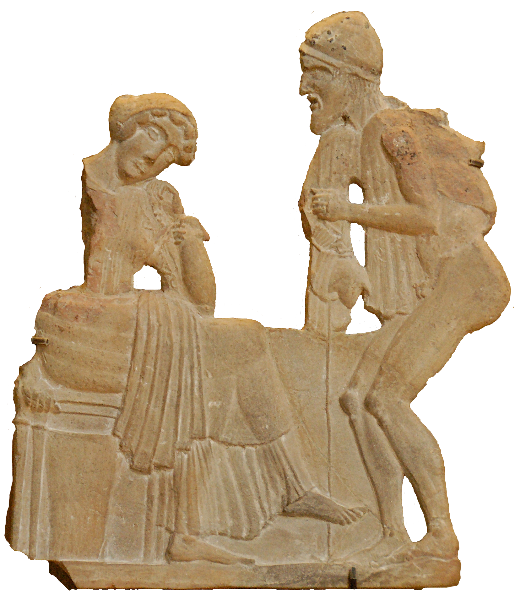 Odysseus, in the guise of a beggar, tries to be recognized by Penelope. Terracotta relief, ca. 450 BC. From Milo.